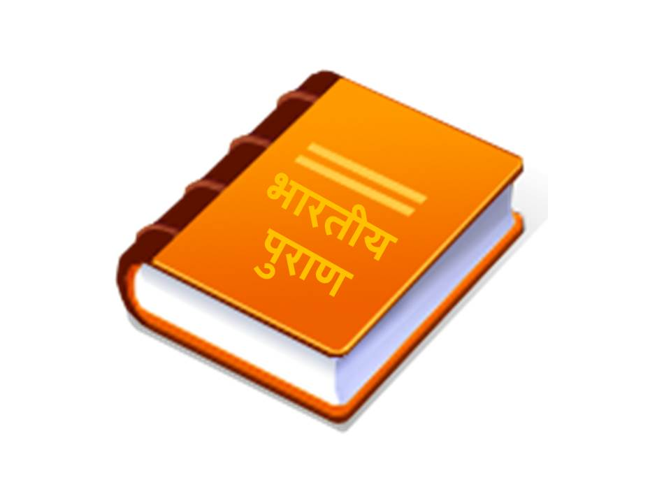 Puran - Indian historic text